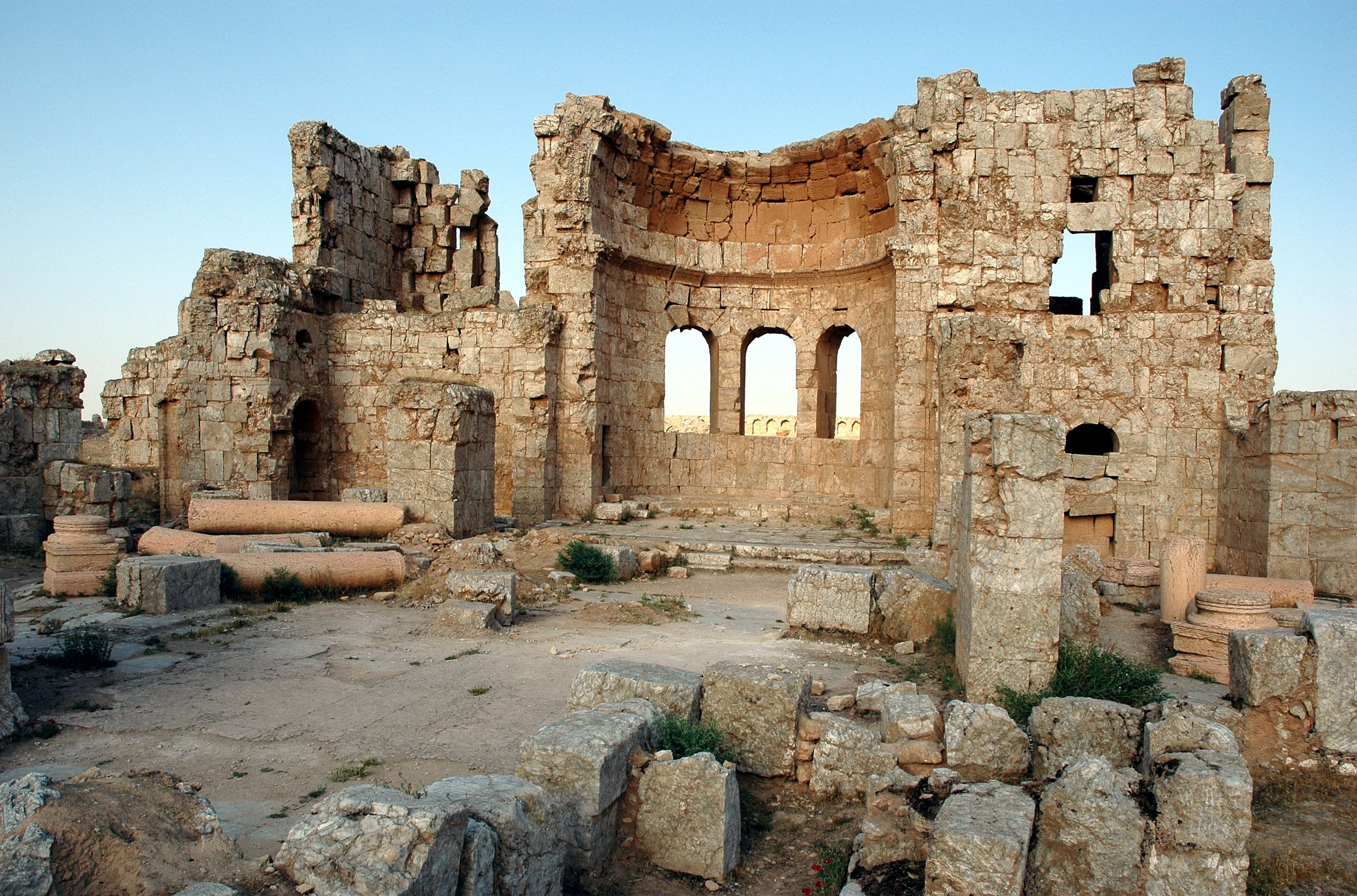 Byzantine cathedral, apse, Sergiopolis in 2004